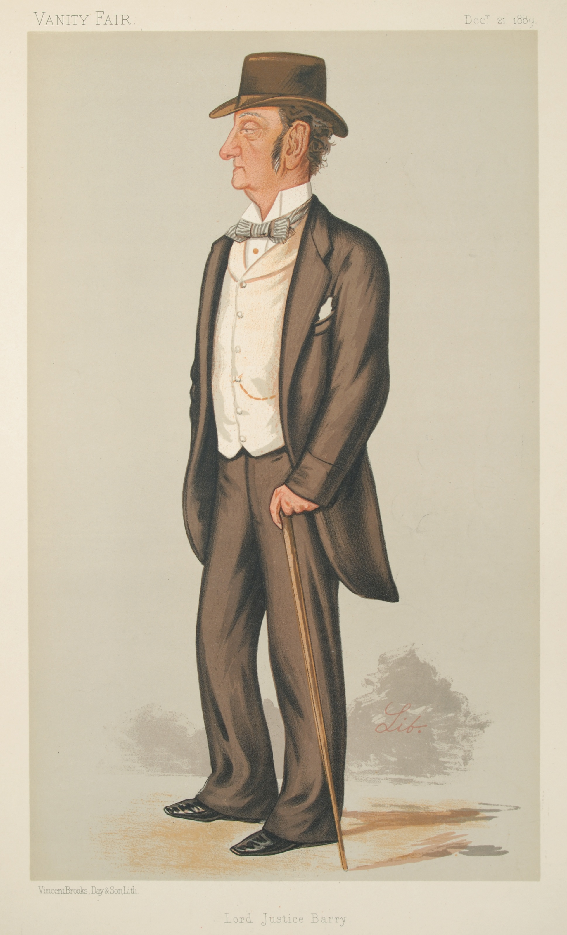 "Lord Justice Barry". Lithograph Dec. 21, 1889 15"x10.5"Vanity Fair portrait, Men of the Day No. 453.